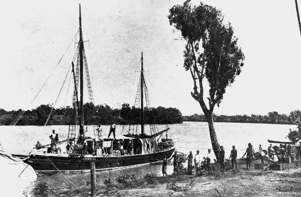 Goodwill (ship) Landing stores at the Roper River Mission. (Information taken from: The Queenslander, 20 January, 1917).